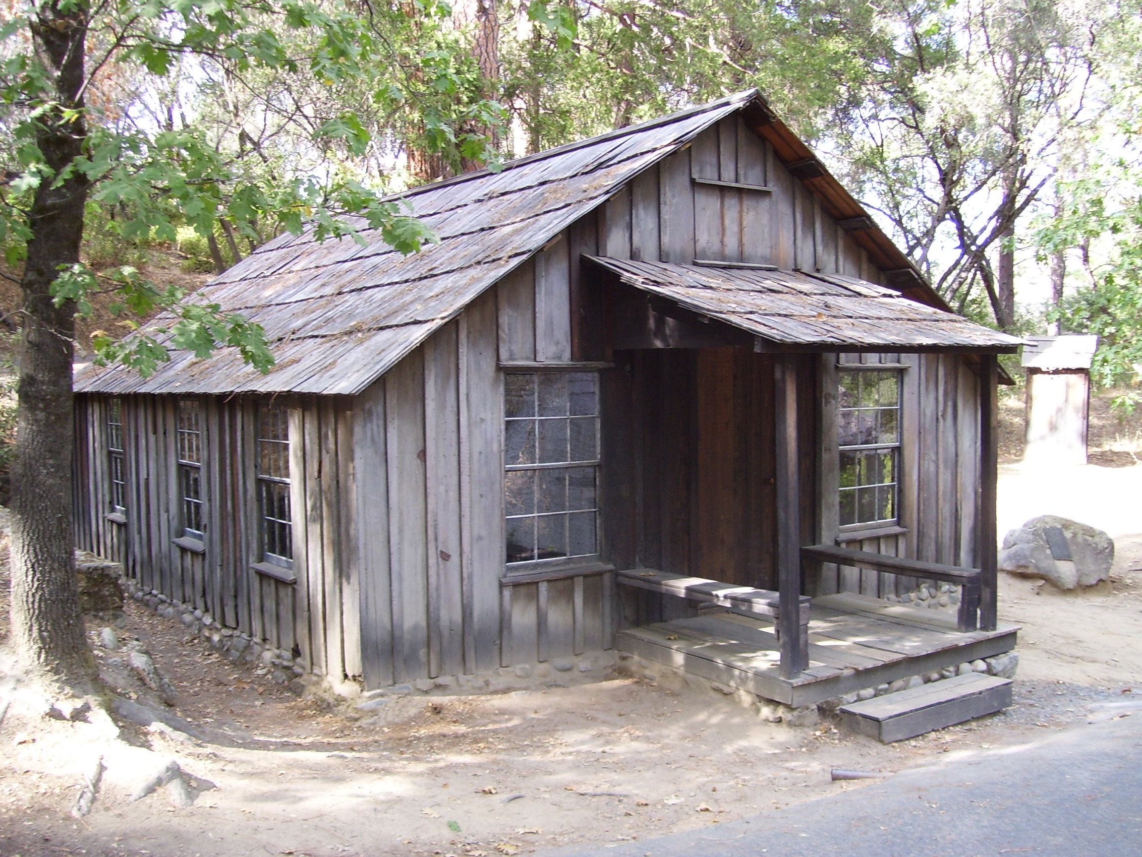 The James Marshall cabin near Sutter's Mill — in Coloma, CA. My 2008 photo.